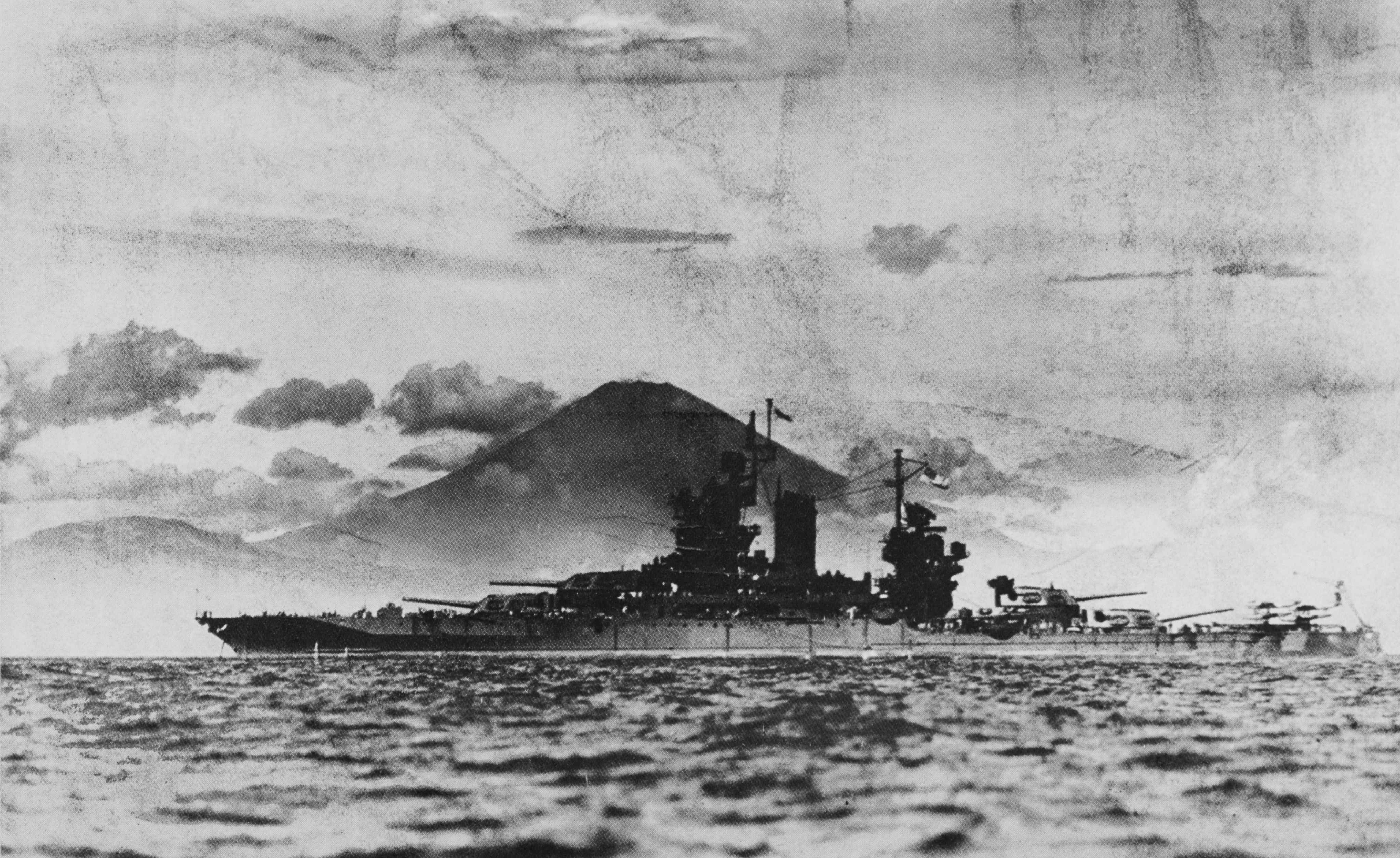 The U.S. Navy battleship USS New Mexico (BB-40) anchored in the Tokyo Bay area, circa late August 1945, at the end of World War II. Mount Fuji is in the background.